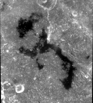 Clementine image - the crater Lallemand is the bright rimmed one at bottom left.